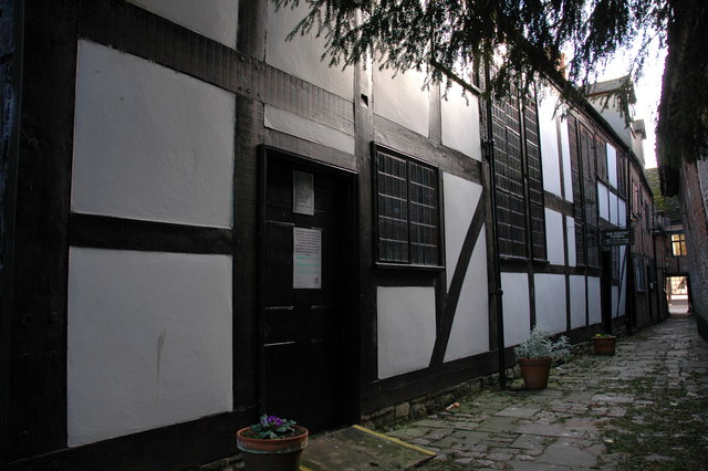 The Old Baptist Chapel, Tewkesbury Located in an alleyway opposite Tewkesbury Abbey, the old Baptist Chapel is believed to be the oldest in southern England. Normally it is open to the public though at the time of my visit is was closed on Health and Safety grounds.